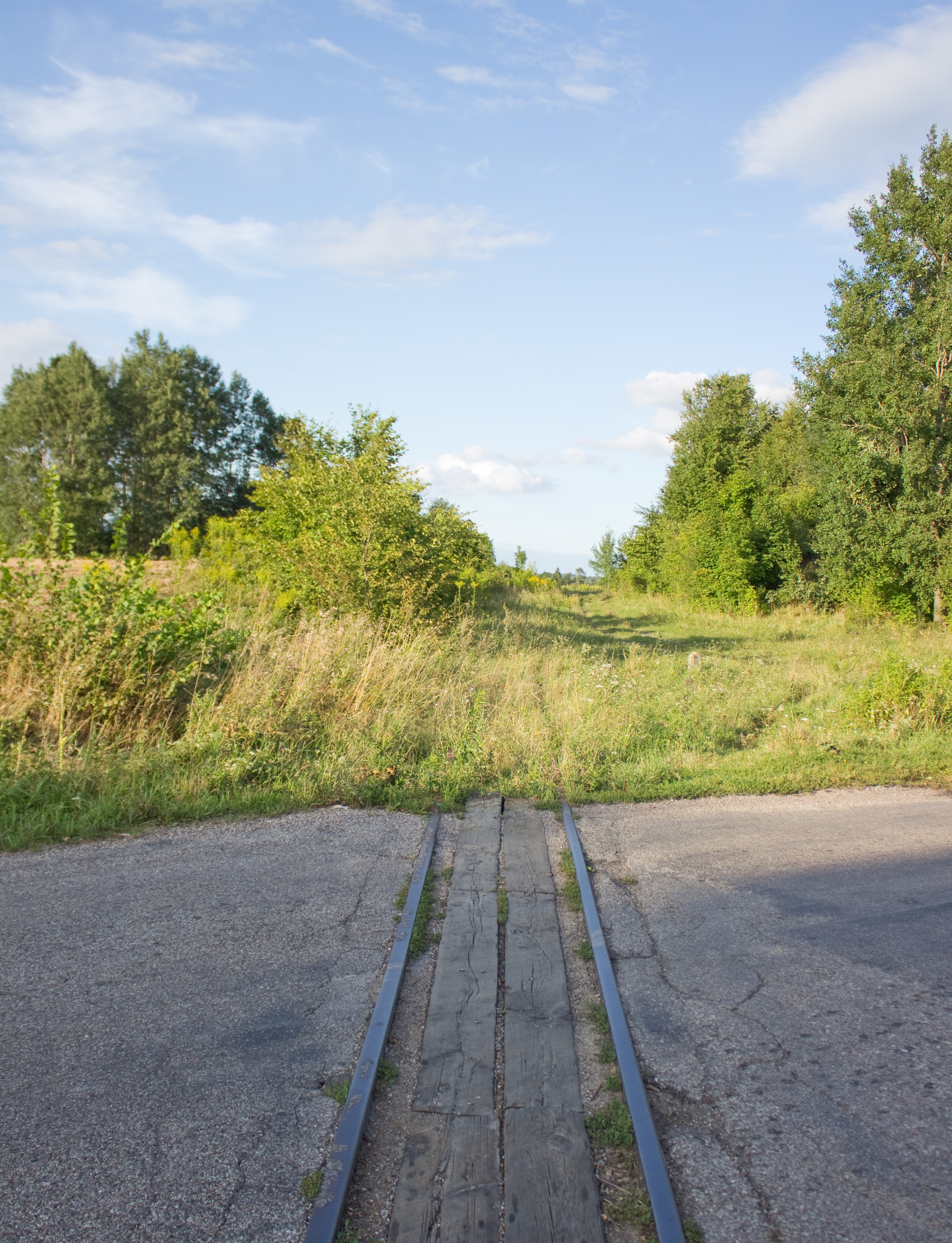 Romanowo, gmina Kalinowo, powiat ełcki, Warmian-Masurian Voivodeship